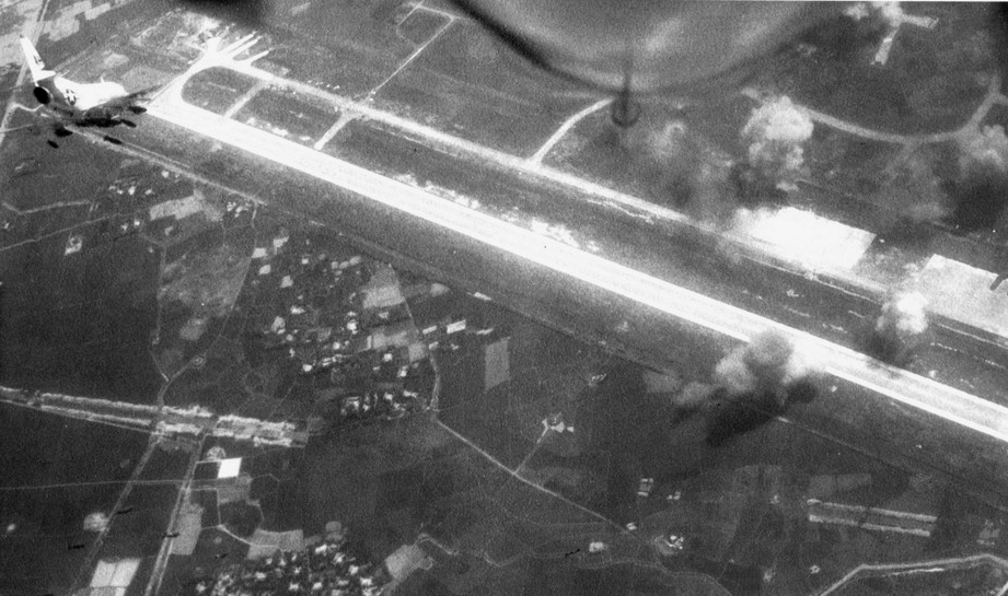 A U.S. Navy Douglas A-4E Skyhawks of Attack Squadron 163 (VA-163) "Saints" and/or VA-164 "Ghost Riders" attack the Kien An air base, North Vietnam, on 8 October 1967. Both squadrons were assigned to Carrier Air Wing 16 (CVW-16) aboard the aircraft carrier USS Oriskany (CVA-34) for a deployment to Vietnam from 16 June 1967 to 31 January 1968.